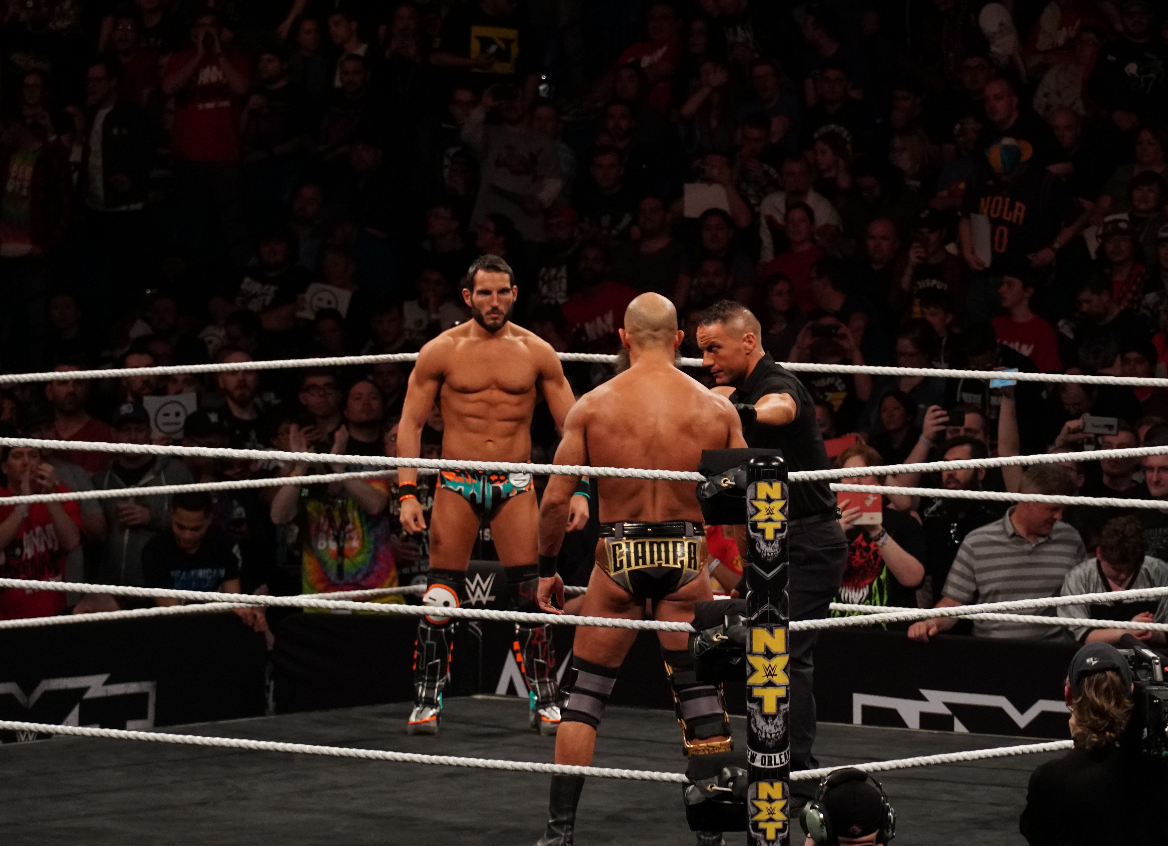 NOLA 2018 - WWE NXT Takeover - New Orleans - Johnny Gargano Vs Tommaso Ciampa Johnny Gargano def. (sub) Tommaso Ciampa (in 36:58) Type of match : unsanctioned Rating : ***** ( Deux semaines a Nola pour la ville et pour WWE Wrestlemania XXXIV Two weeks Nola for the city and for WWE Wrestlemania XXXIV )